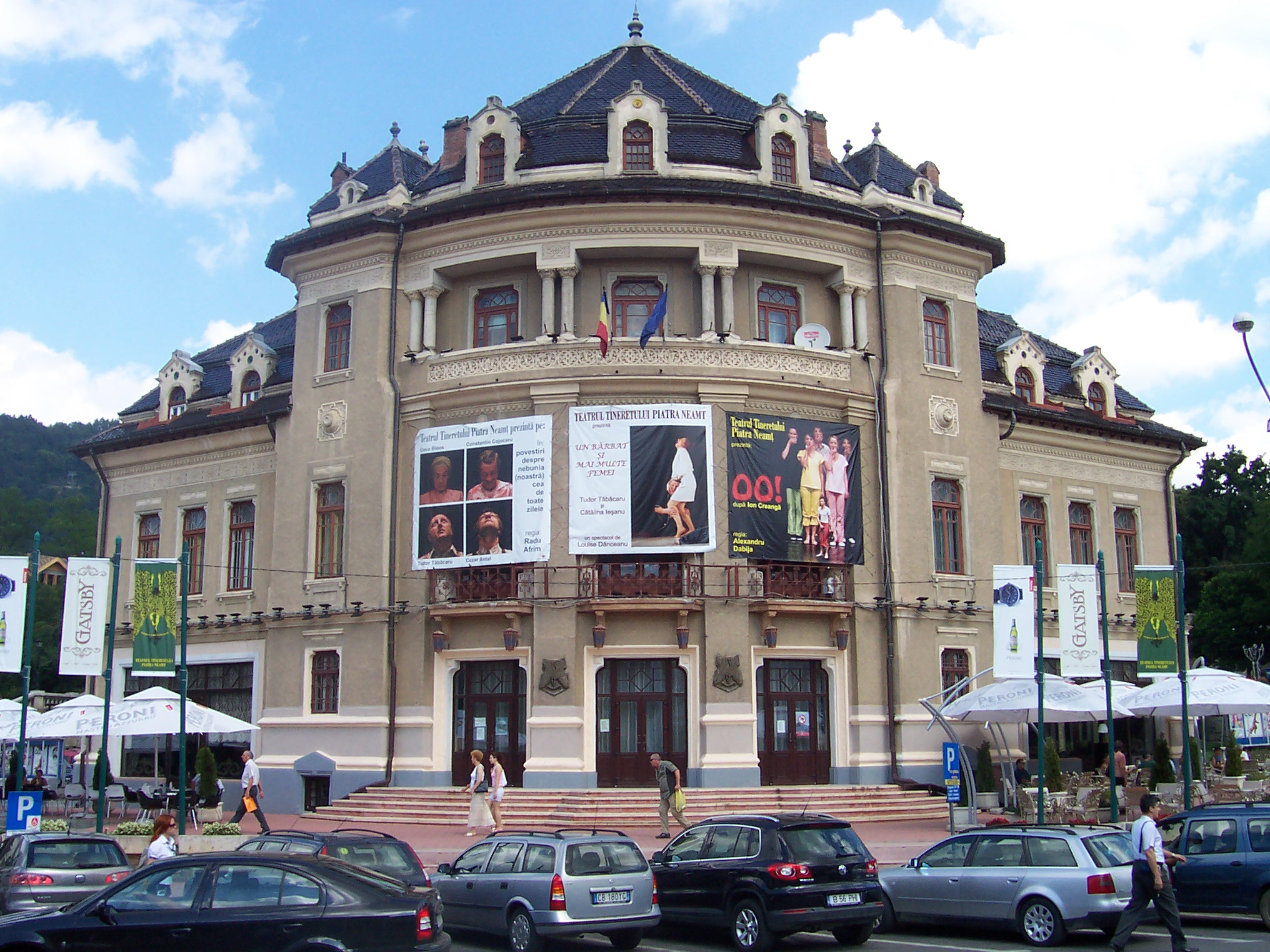 Teatrul Tineretului (Young People's Theatre) in Piatra Neamt, Romania